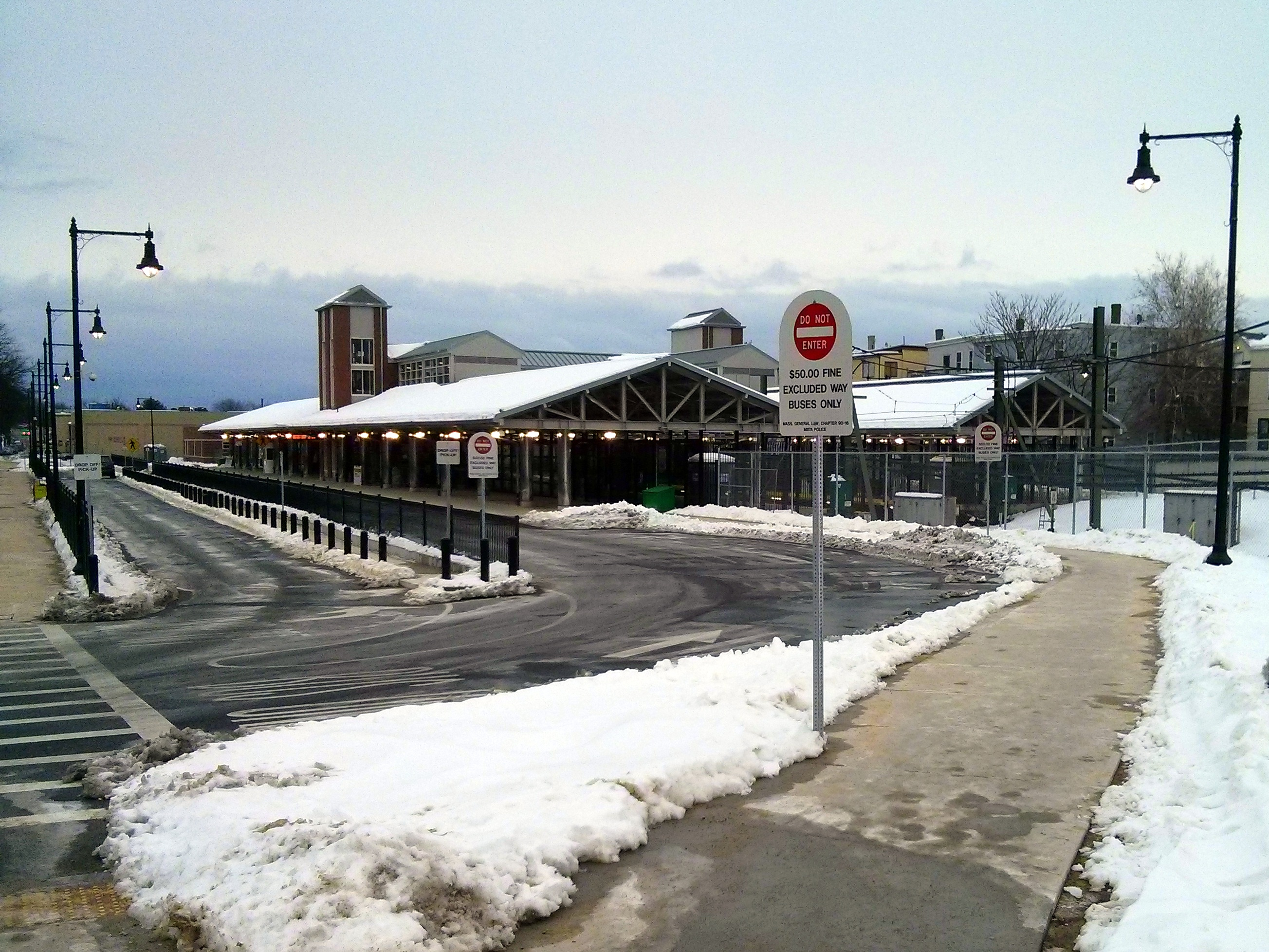 Drop-off/pick-up lane (left) and busway off Bennington Street at Orient Heights station